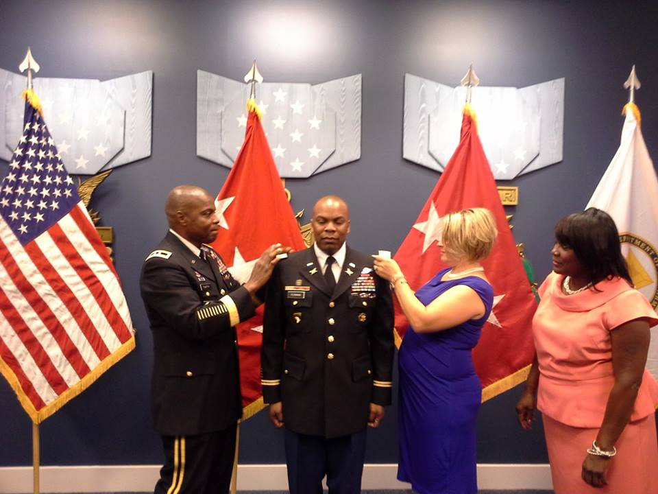 MG Twitty Promoting Flemming to Colonel